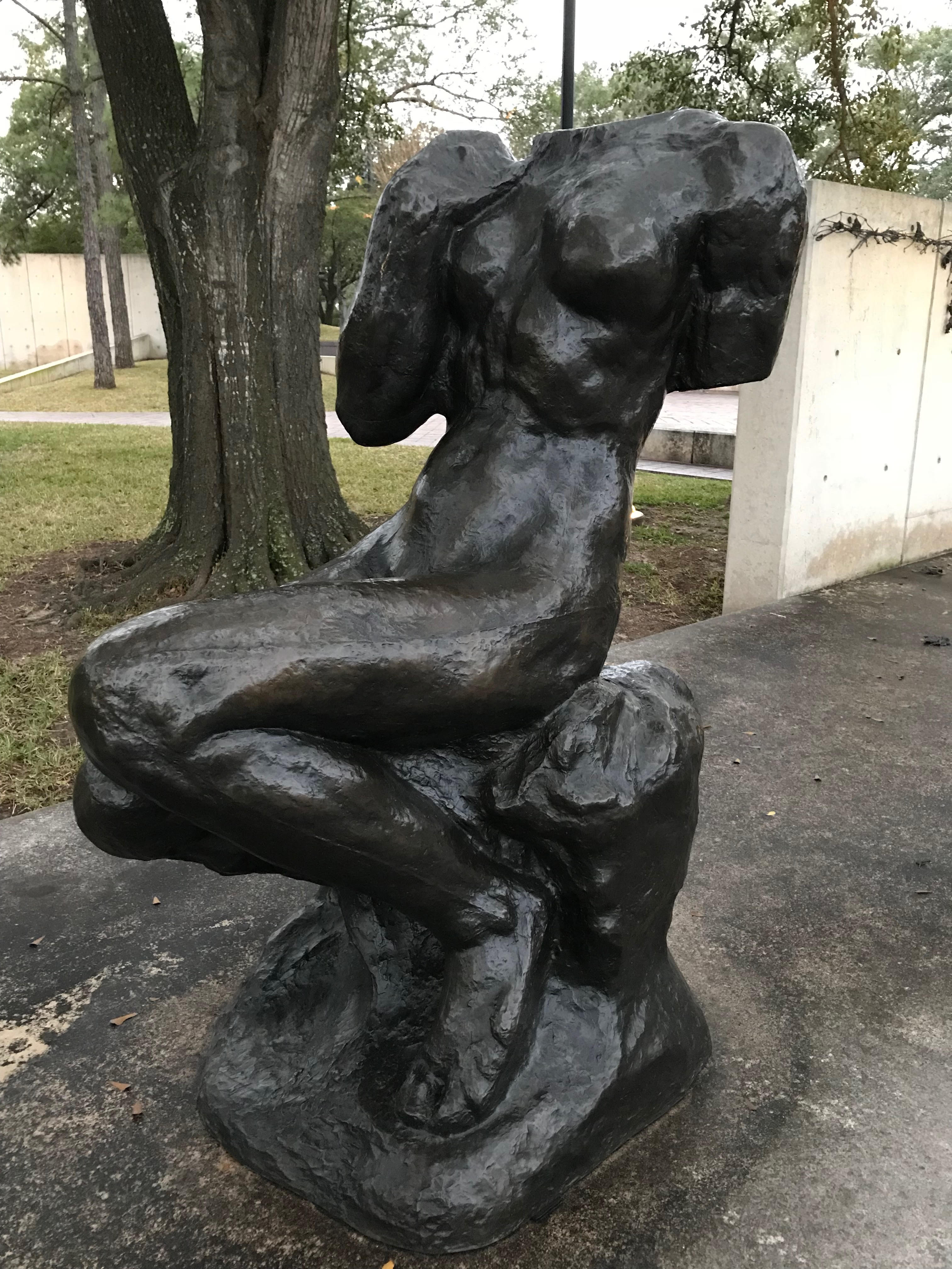 Auguste Rodin. Cybele. Modeled c. 1890, enlarged 1904, cast 1982. Bronze (3/8). Lillie and Hugh Roy Cullen Sculpture Garden, Houston, Texas.